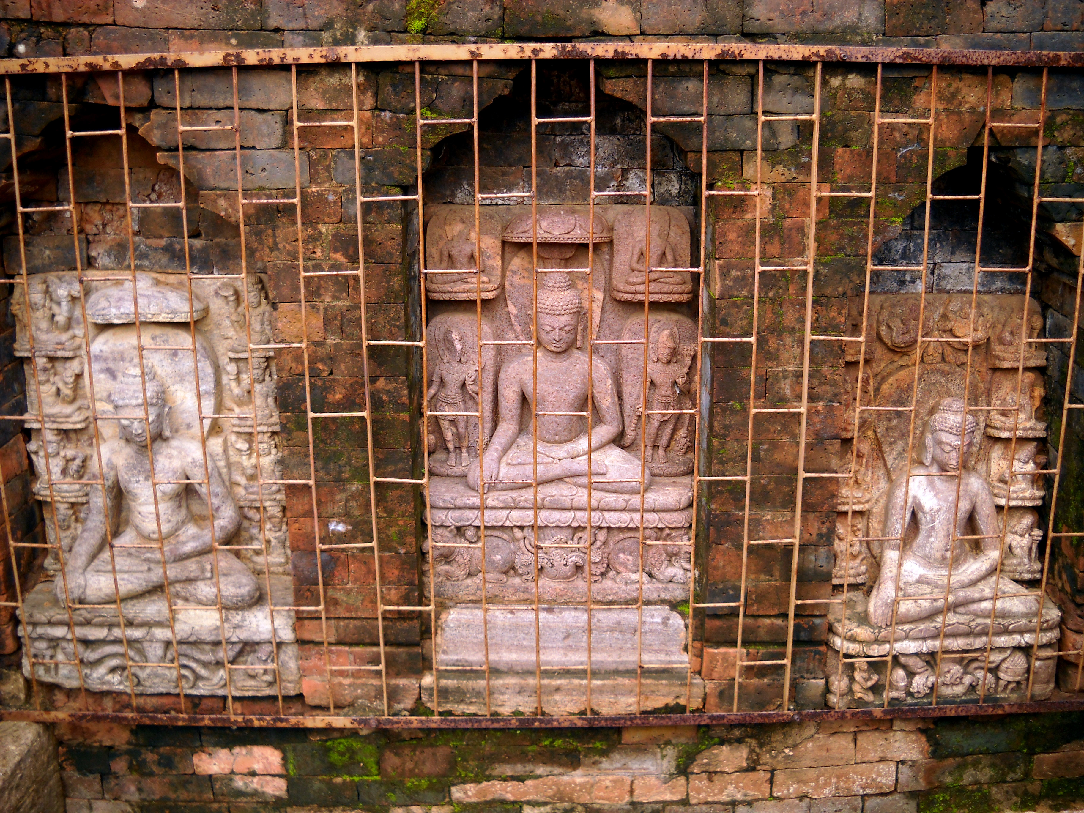 Hill containing many valuable sculptures and images